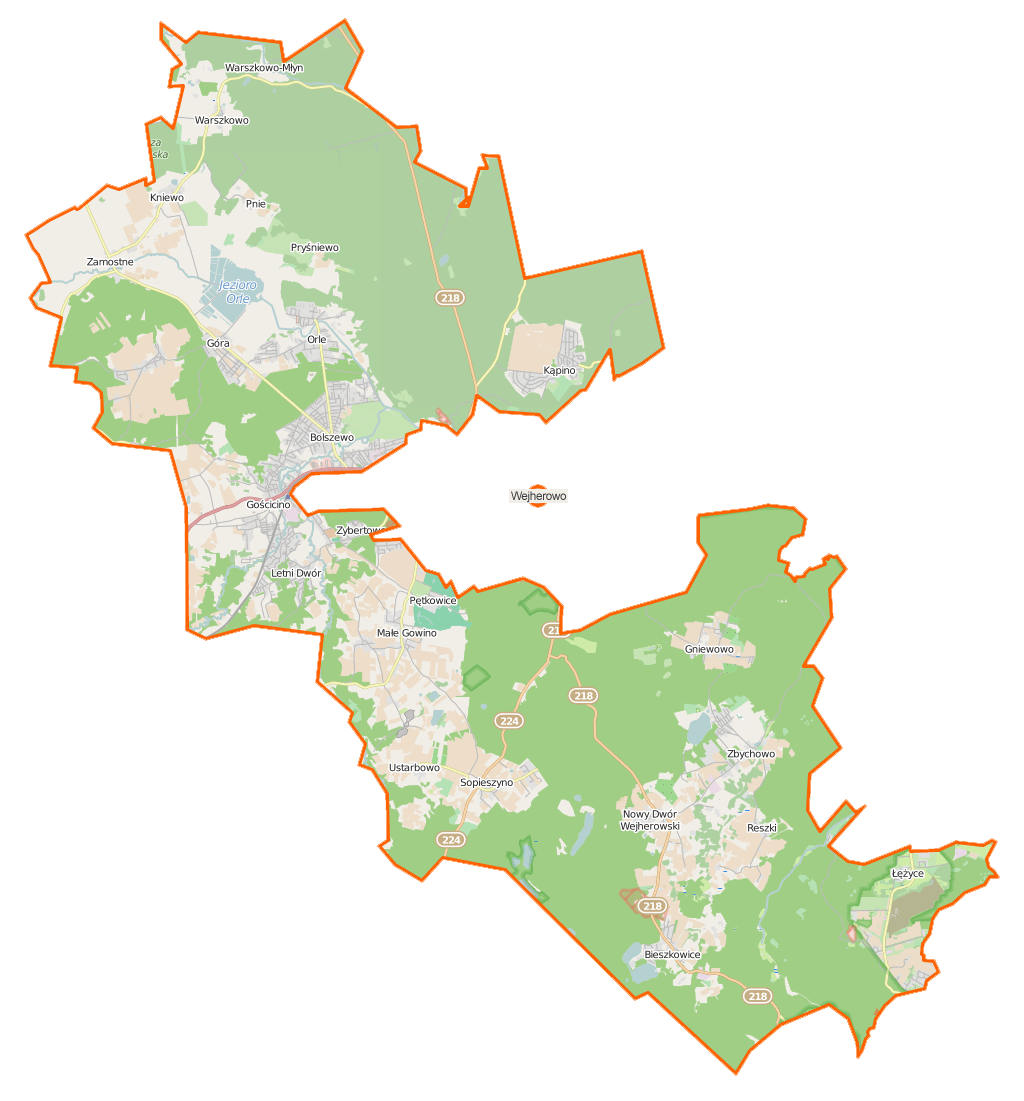 Map of Gmina Wejherowo, Poland This map of Wejherowo (gmina wiejska) was created from OpenStreetMap project data, collected by the community. This map may be incomplete, and may contain errors. Don't rely solely on it for navigation.